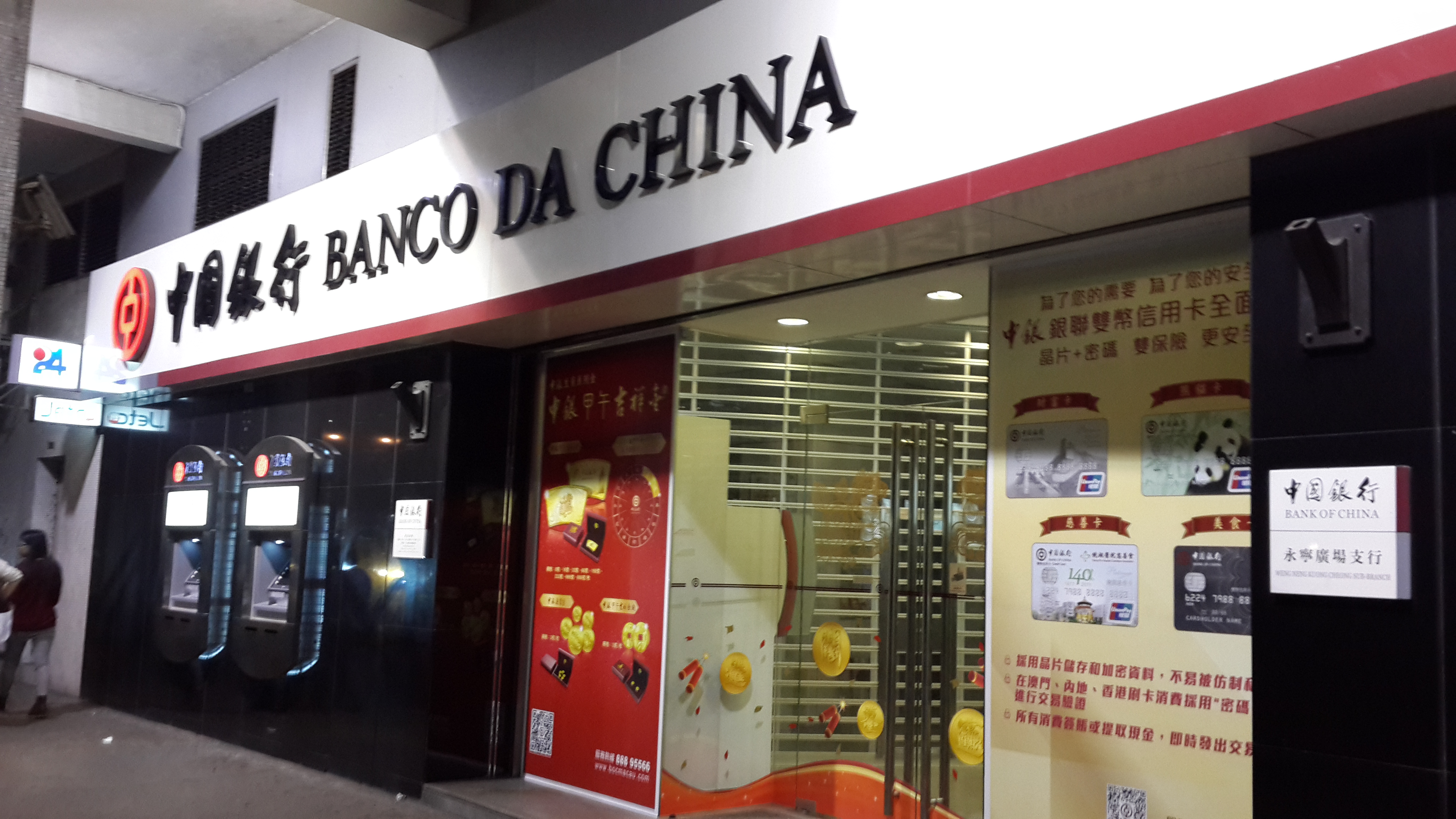 Bank of China Macau Weng Neng Kuong Cheong (Alameda da Tranquilidade) Sub-Branch Signboard marked in Traditional Chinese(中國銀行)and Portuguese(BANCO DA CHINA). 中文（香港）: 中國銀行澳門永寧廣場支行，正門招牌以中文(中國銀行)和葡文(BANCO DA CHINA)標示。